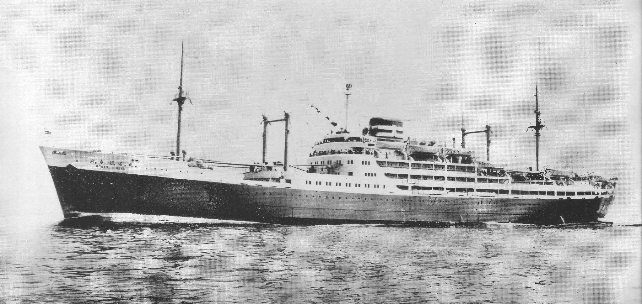 O.S.K. Line "Brazil Maru" (1954).